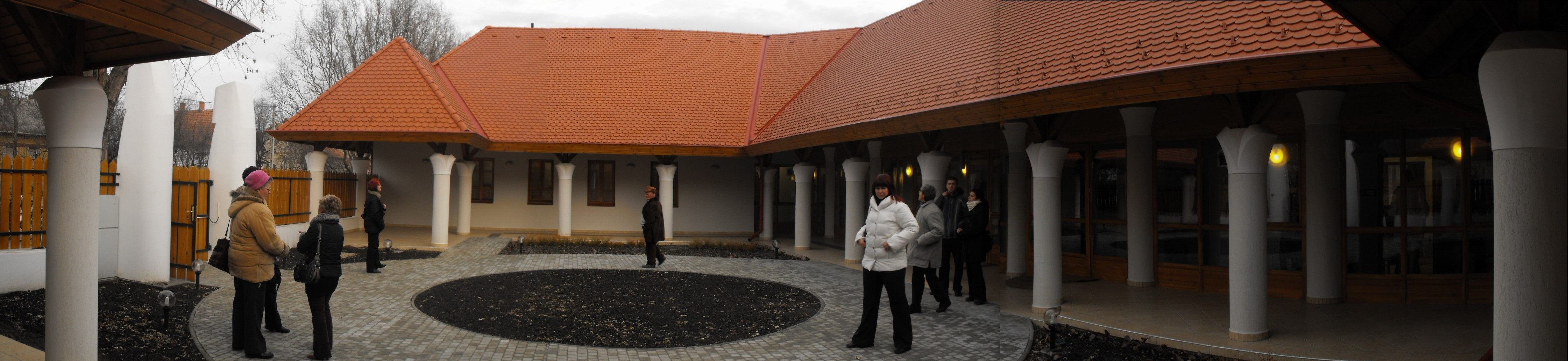 The agora of the Búza street day nursery, designed by Imre Makovecz.